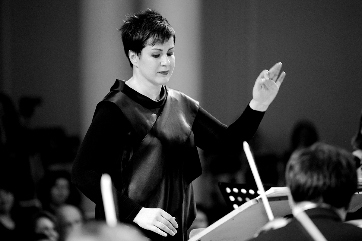 Conductor Tatiana Kalinichenko